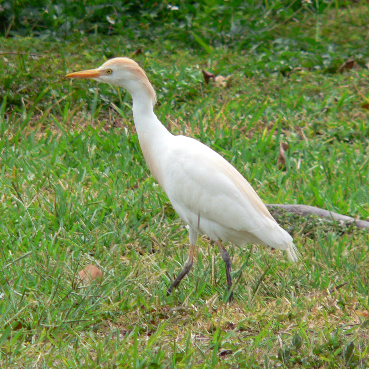 Cattle Egret (Bubulcus ibis) at Florida Keys.